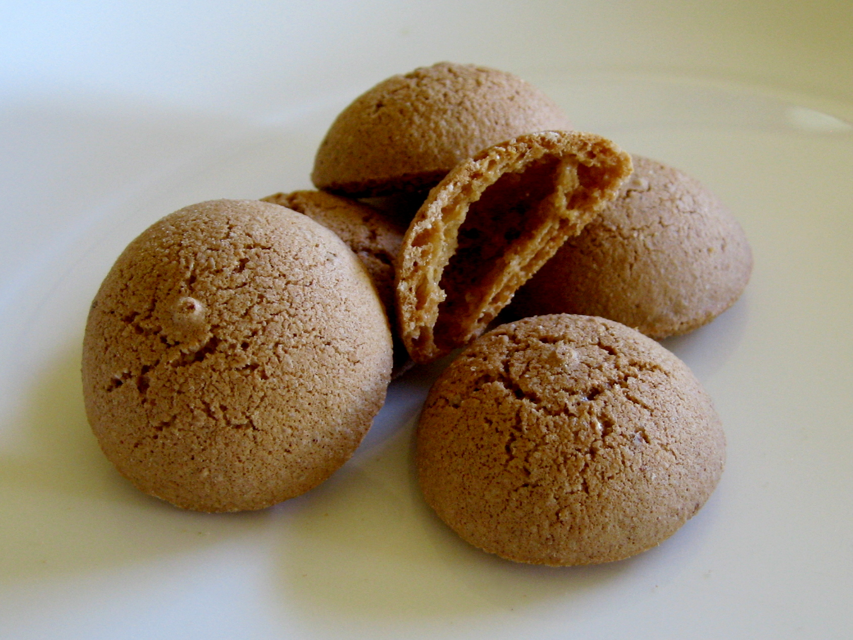 Amaretti (cookies aka biscuits), as made by Biscottificio Primavera